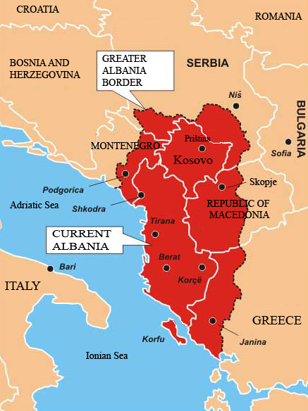 translated from File:Ethnic albania.jpg